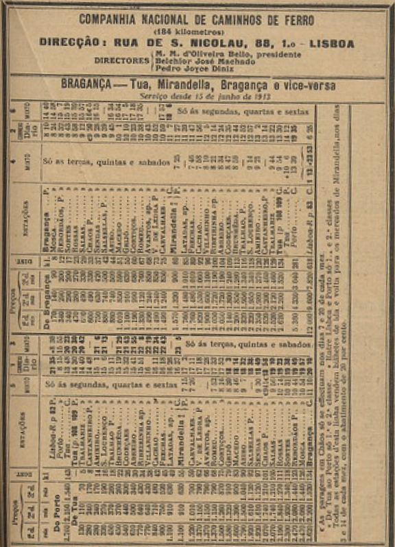 Timetable of the Linha do Tua (Tua Railway), in Portugal, on the 15th June 1913. This image was published on the Guia Official dos Caminhos de Ferro de Portugal No. 168, of October 1913, and scanned by the Biblioteca Nacional de Portugal.